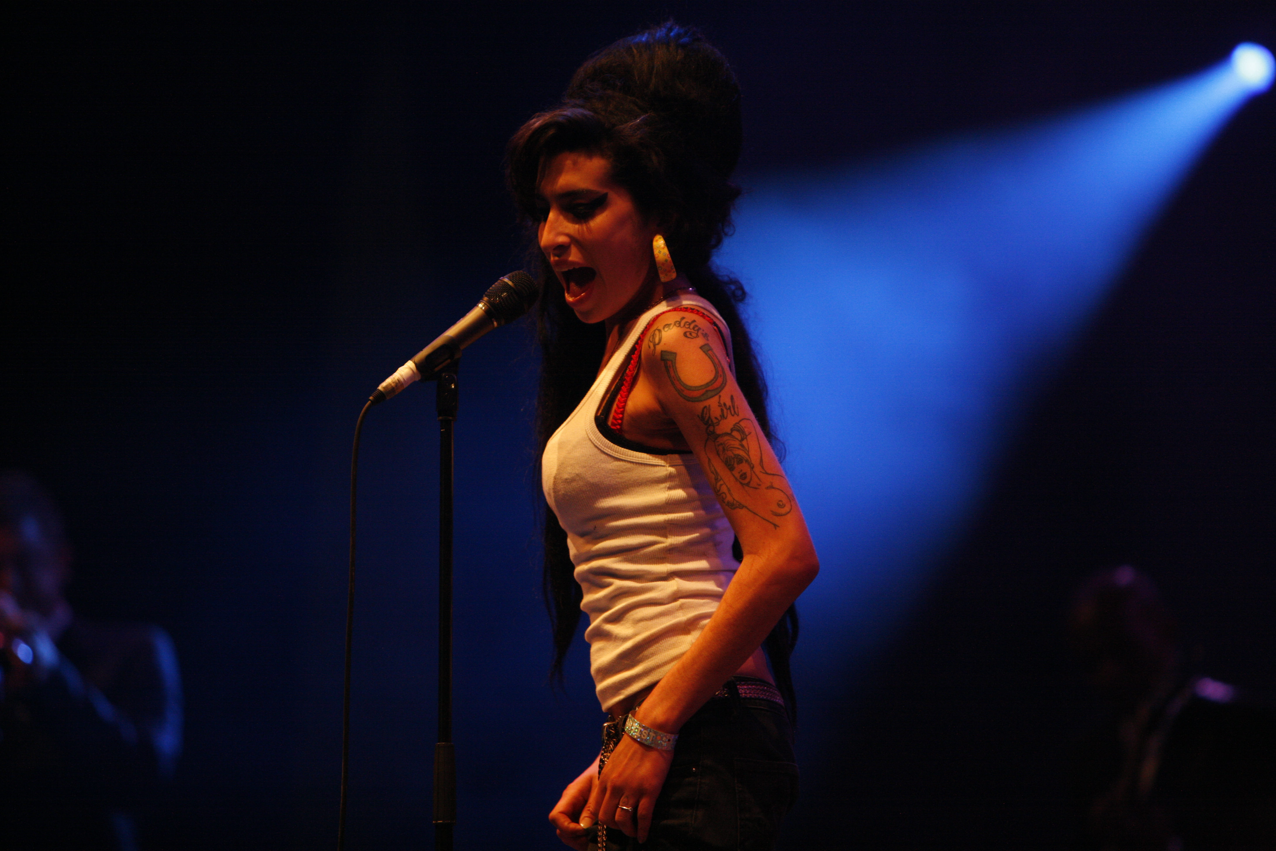 Amy Winehouse at the Eurockéennes of 2007